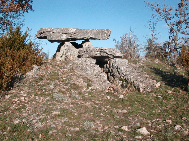 Plateau du Larzac: "Dolmen of Costa Caouda" located in the municipality of La Vacquerie-et-Saint-Martin-de-Castries (Hérault - France).